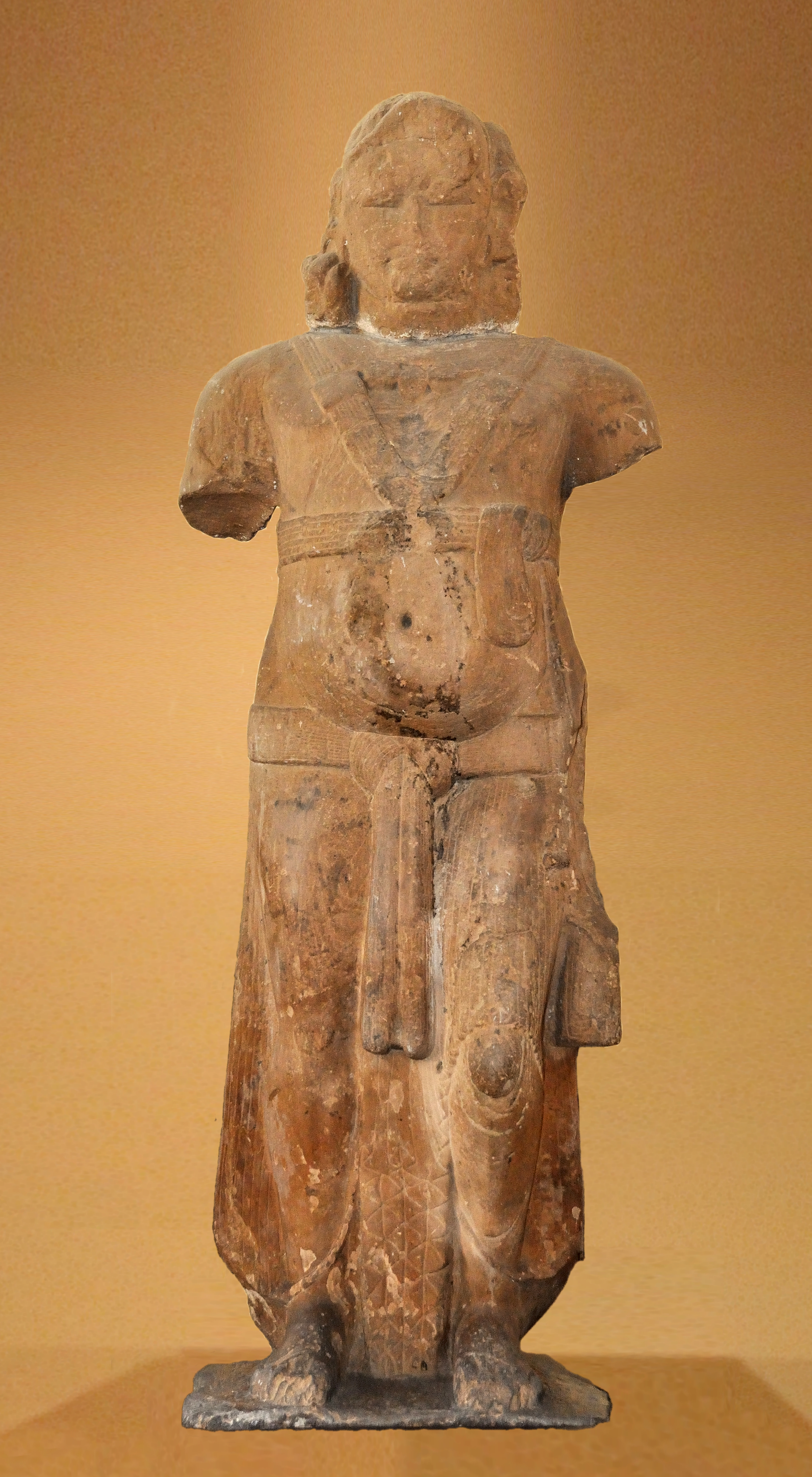 Yaksha Manibhadra - Parkham Mathura circa 150 BCE